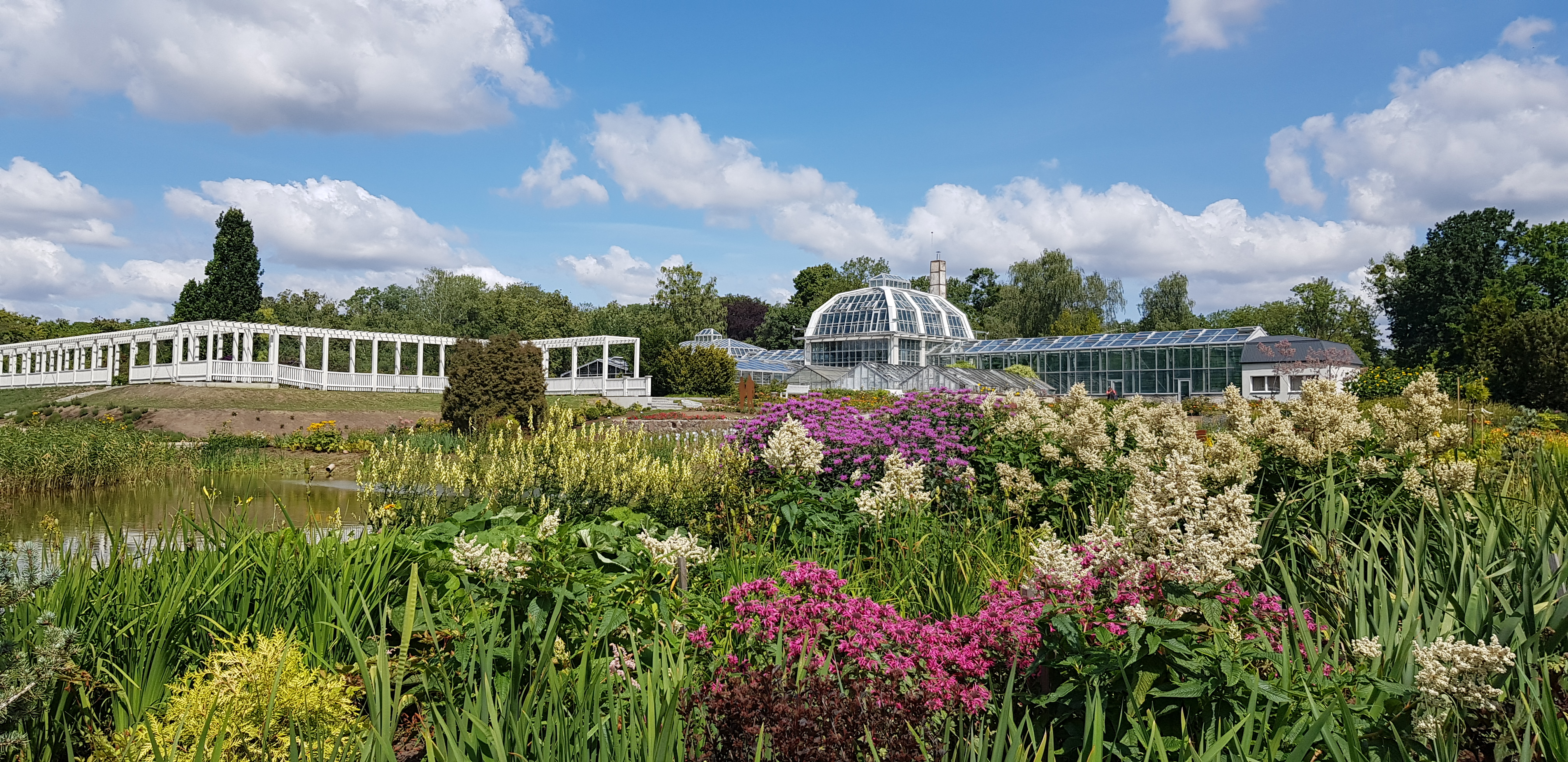 View to Greenhouse, Pergola and Exposition of Ornamental Plants